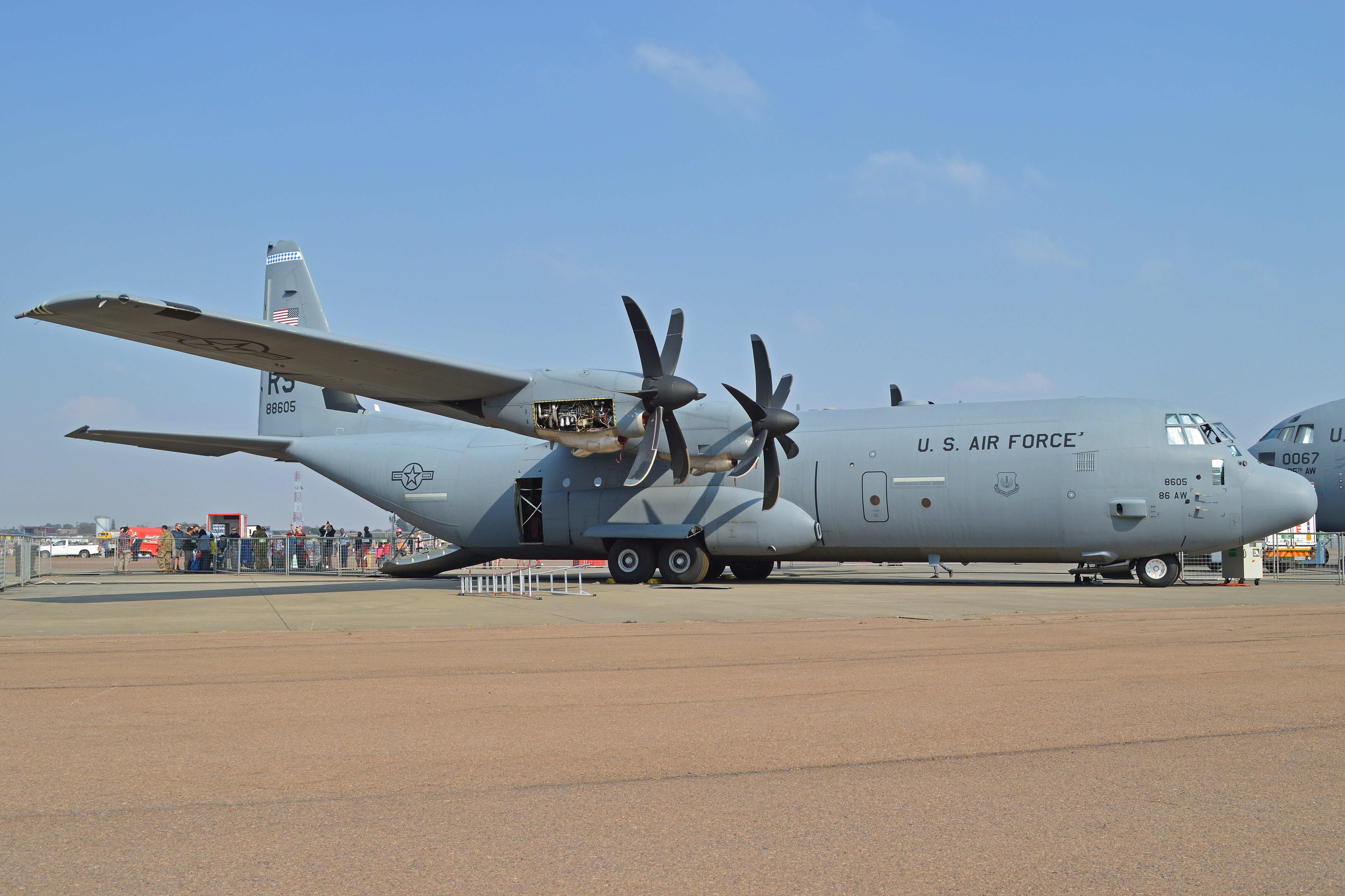 c/n 5615. Full U.S. military serial ‘08-8605’. Operated by 37th Airlift Squadron, 86th Airlift Wing, U.S.Air Force. Based at Ramstein AFB in Germany. Seen on static display at Waterkloof AFB, South Africa, during the 2014 AAD (African Aerospace & Defence) airshow. 20-9-2014